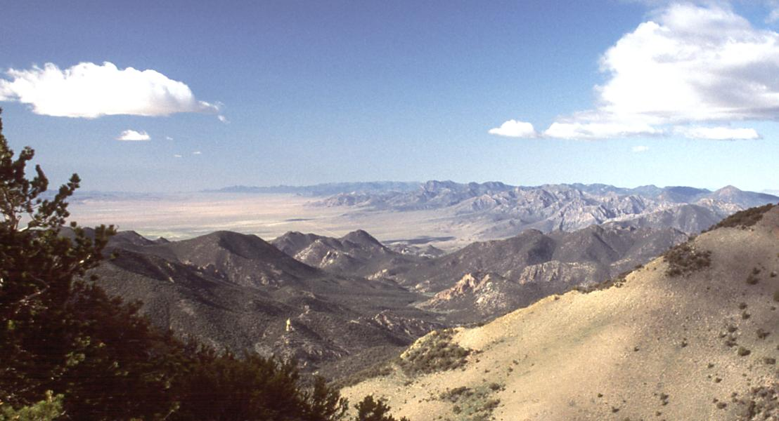 Sixmile Canyon in central Nevada, looking south from Mahogany Peak in the Hot Creek Range.